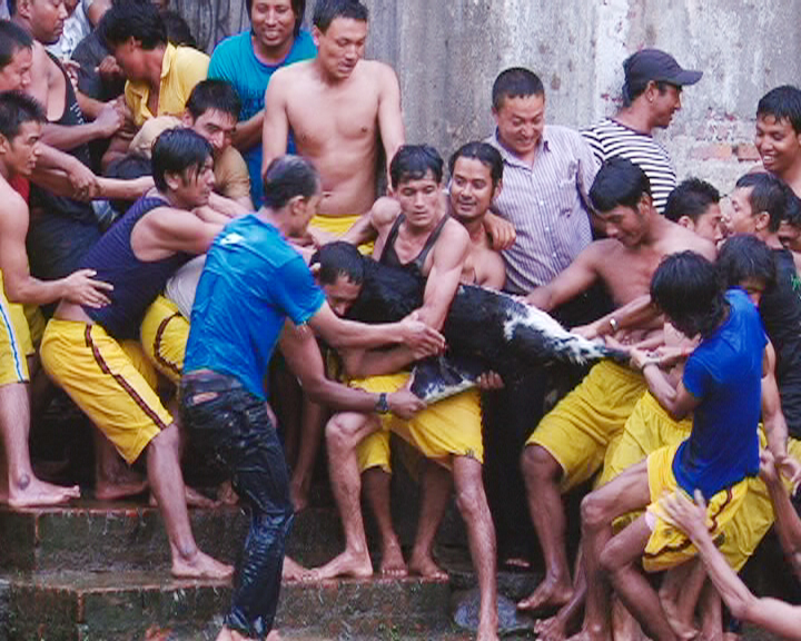 A festival celebrated in Khokana, Kathmandu.